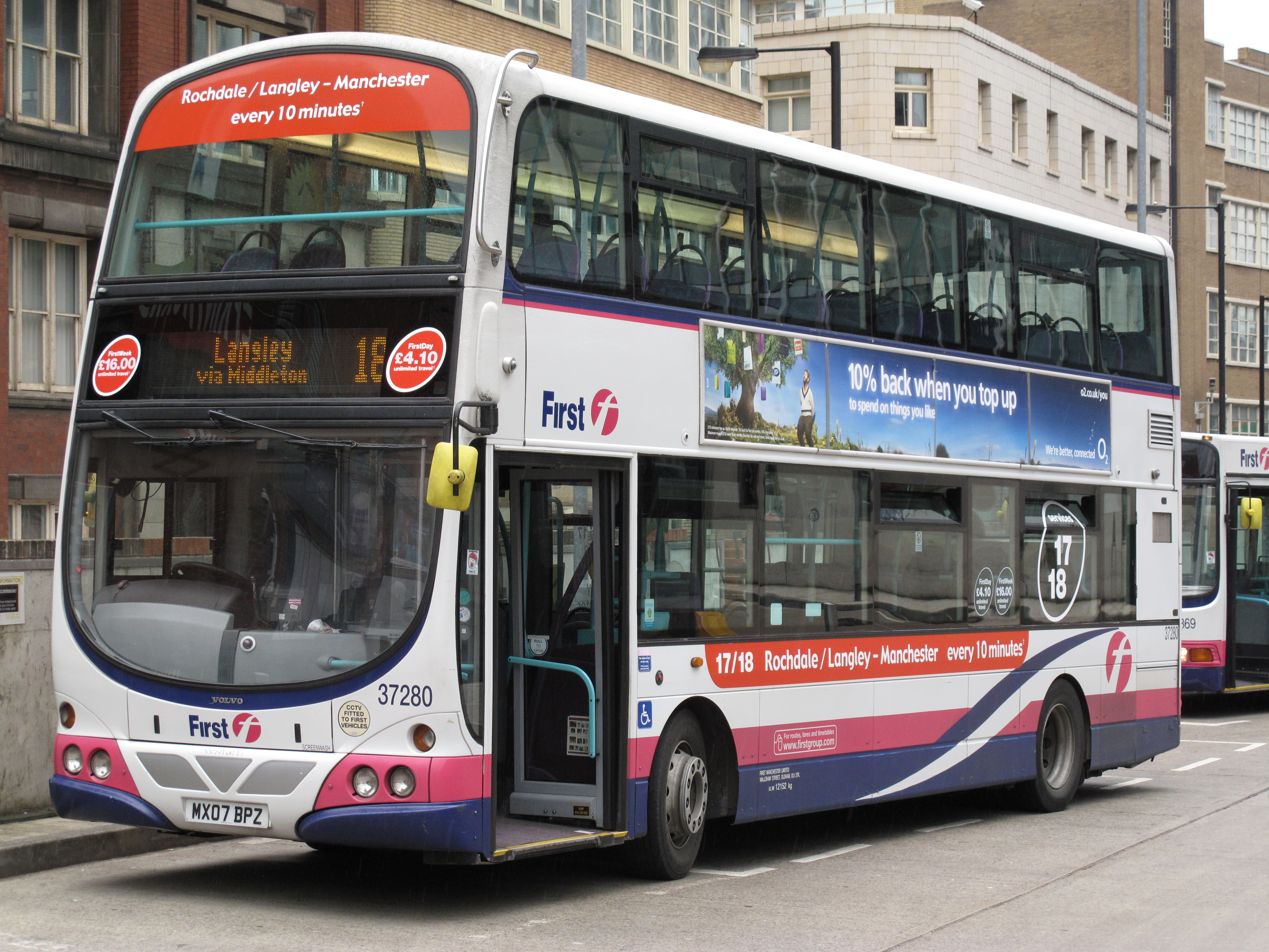 A First Manchester Volvo B9TL / Wrightbus Gemini with route 17 / 18 branding in Shudehill Interchange, Manchester.